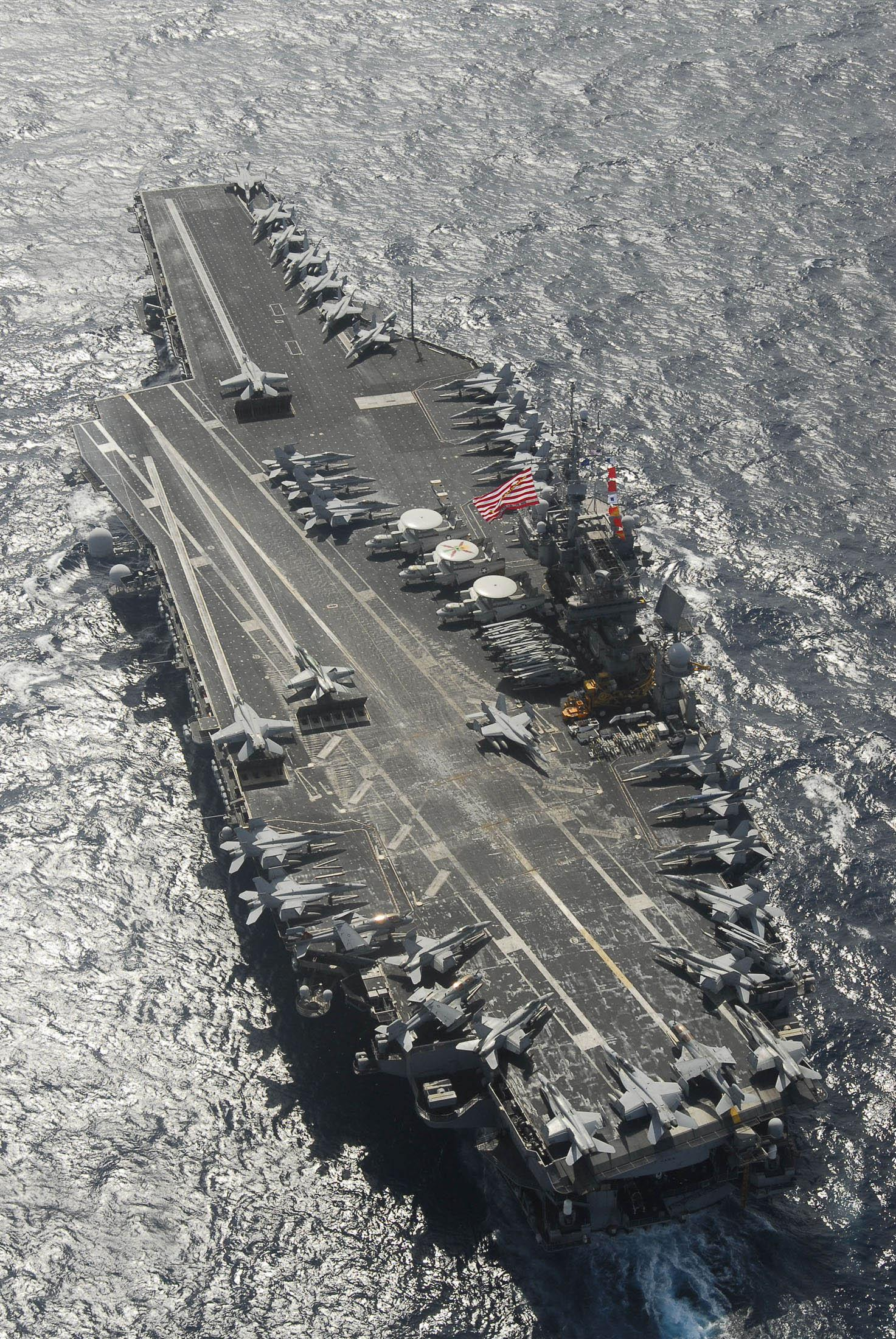 USS Kitty Hawk (CV 63) steams in formation in the Bay of Bengal during exercise Malabar 07-2 on Sept. 5. The multinational exercise includes naval forces from India, Australia, Japan, Singapore, and the United States. In addition to the Kitty Hawk, taking part in the formation are USS Nimitz, INS Viraat, JS Yuudachi, JS Ohnami, RSS Formidable, HMAS Adelaide, INS Ranvijay, INS Brahmaputra, INS Ranjit, USS Higgins, USS Curtis Wilbur and USS Chicago.